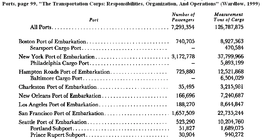 Ports, table from page 99 showing "The relative importance of the thirteen installations, as measured by the number of passengers and the tons of cargo embarked during the period December 1941—August 1945, inclusive"